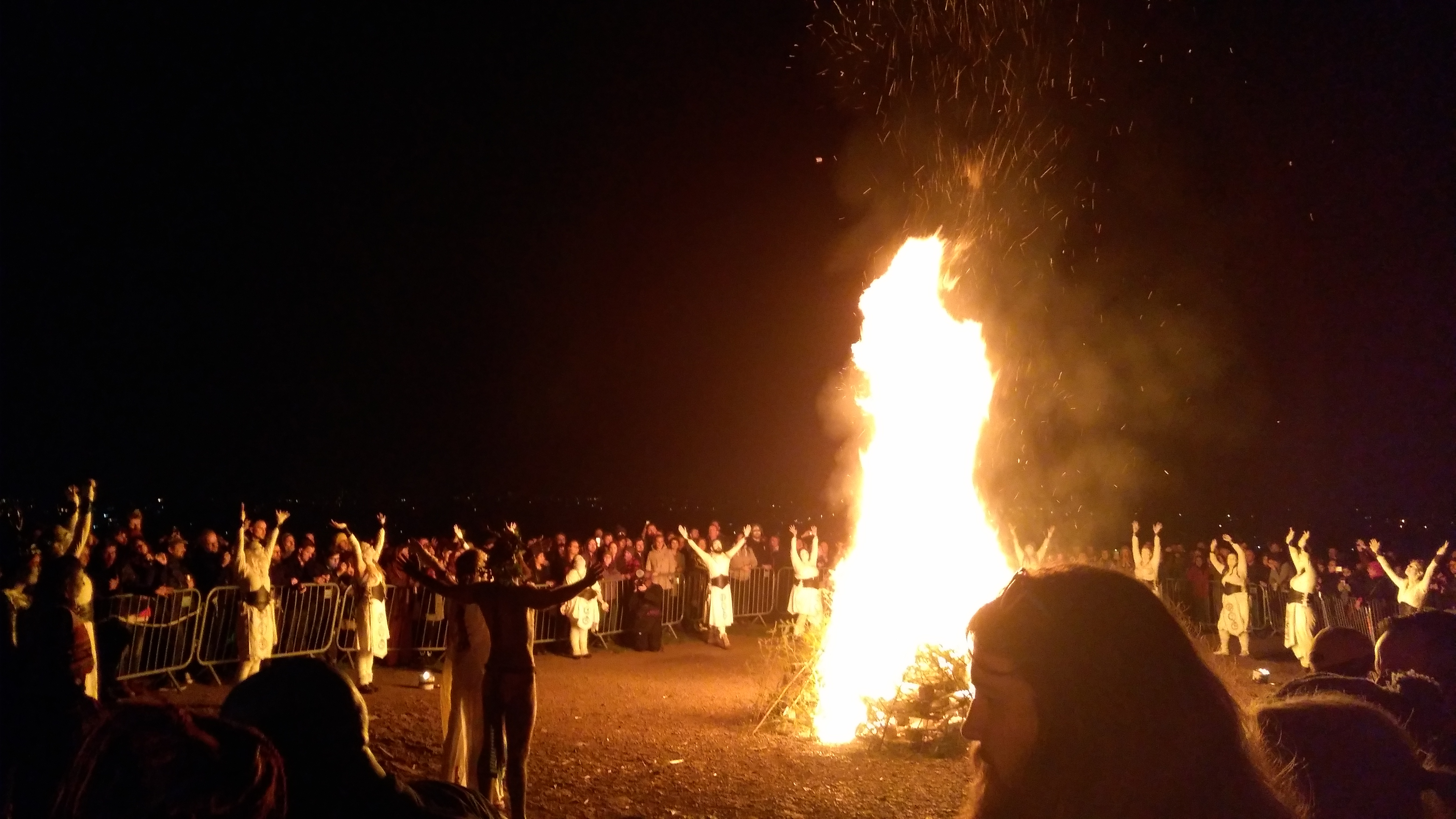 Bonfire at the Beltane Fire Festival 2019, Calton Hill, Edinburgh. The reunited May Queen and Green Man face the fire, while dancers stop to raise their arms to heaven.